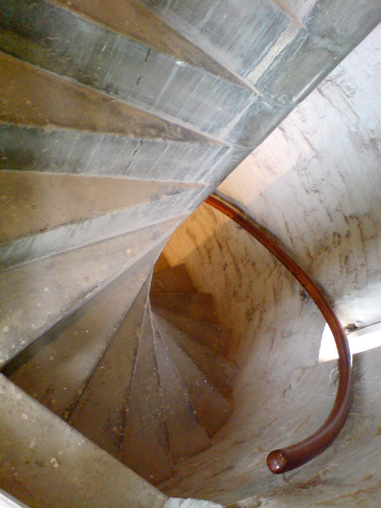 narrow spiral staircase of concrete in what seems to be a tower